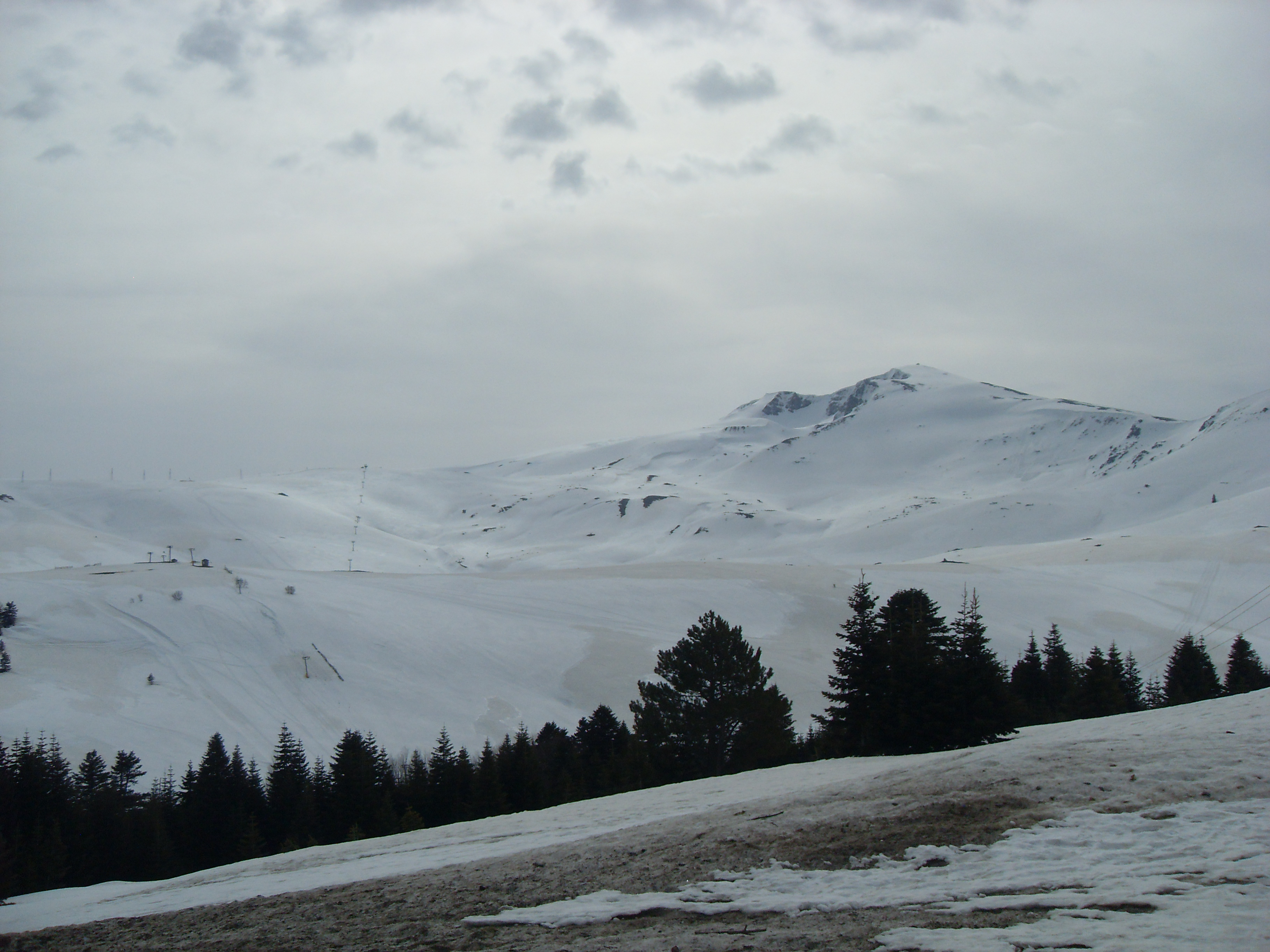 This is Uludağ Mt. taken on April 18th, 2015.